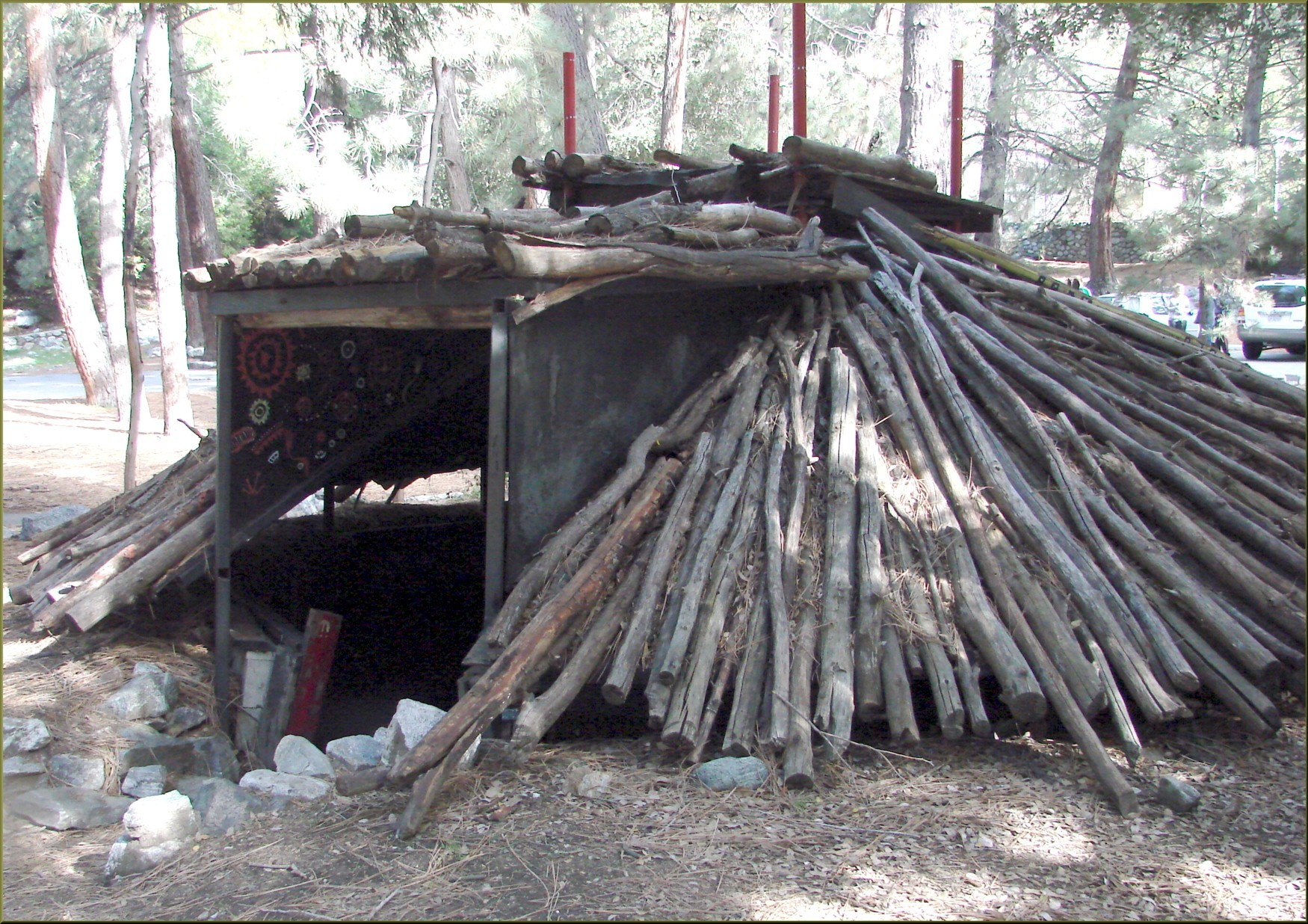 (1 in a multiple picture set) This structure would have been centrally located in the Tongva village and was used for ceremonial gatherings. It is much like the kivas found at Anasazi sites from the ancient puebloen era.